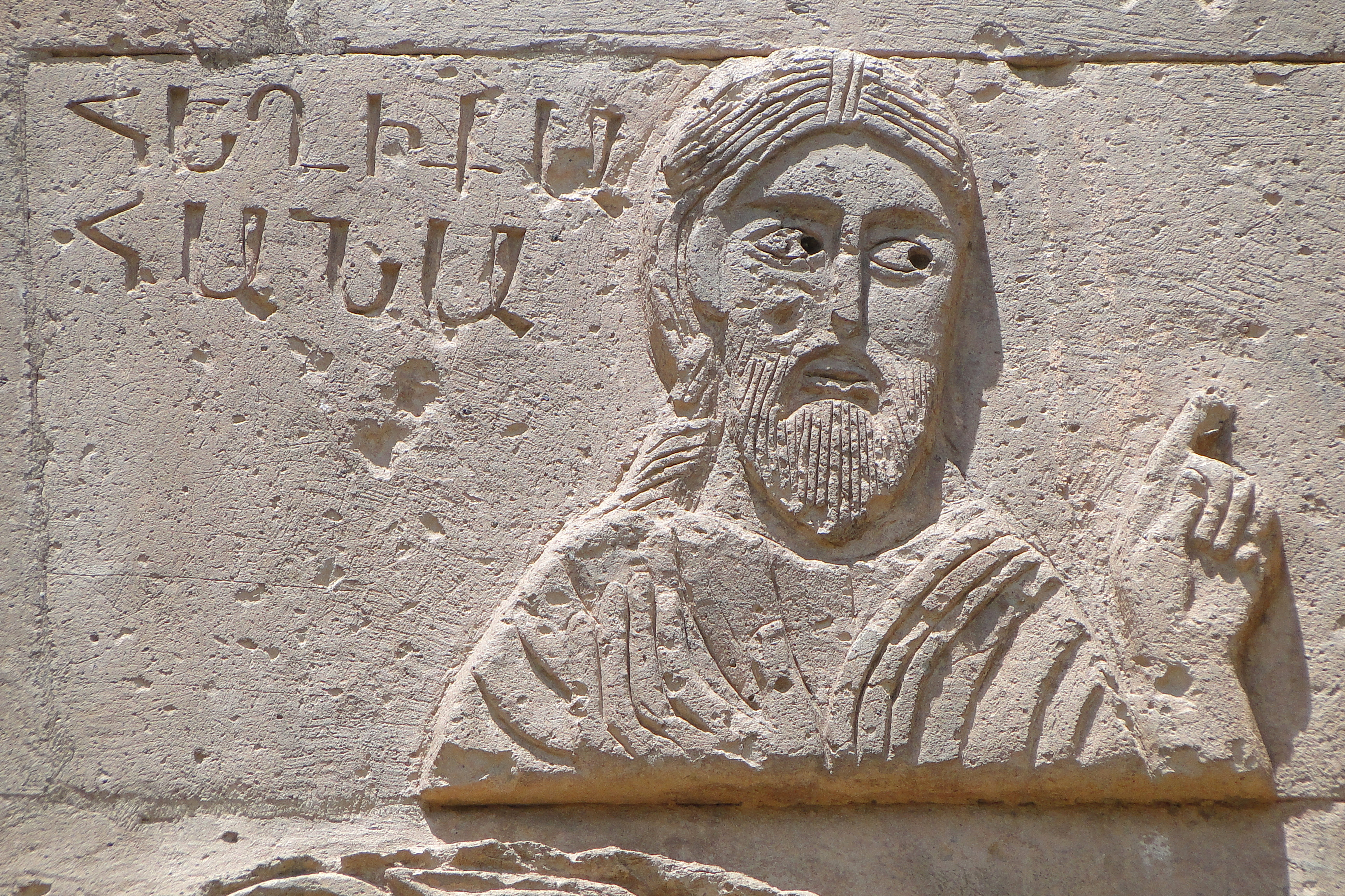 Armenian Bas Relief of Christ - 10th-Century Akdamar Church (Akdamar Kilisesi) - Lake Van - Turkey